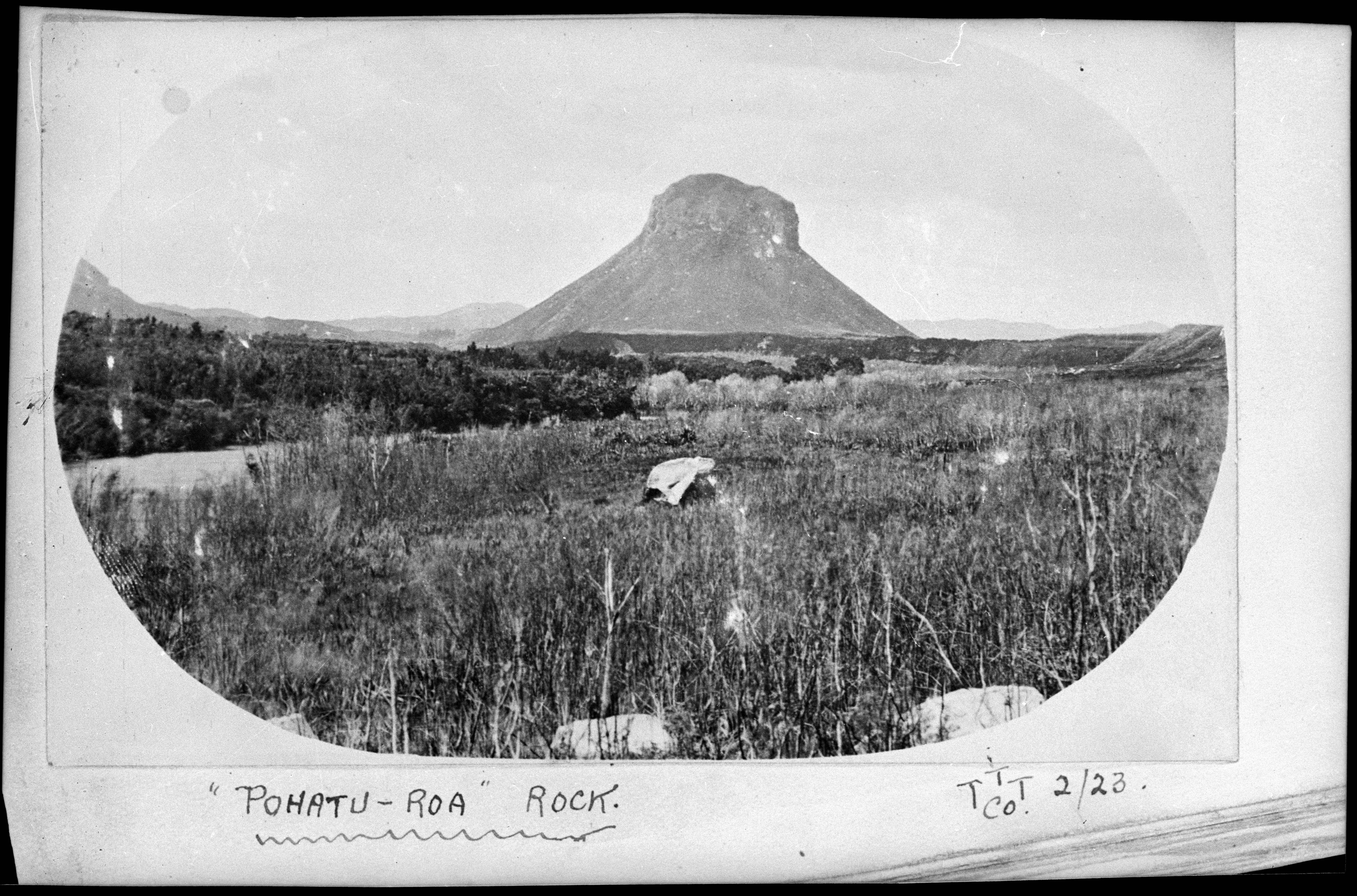 View of Pohaturoa Rock near Atiamuri, in an area of forest owned by the Taupo Totara Timber Company. Photographed by Albert Percy Godber in February 1923. This film negative is copied from the print in Godber Album Vol 109, p 180 (PA1-q-102), which includes the inscription "`Pohatu-Roa' Rock. TTT Co. 2/23"